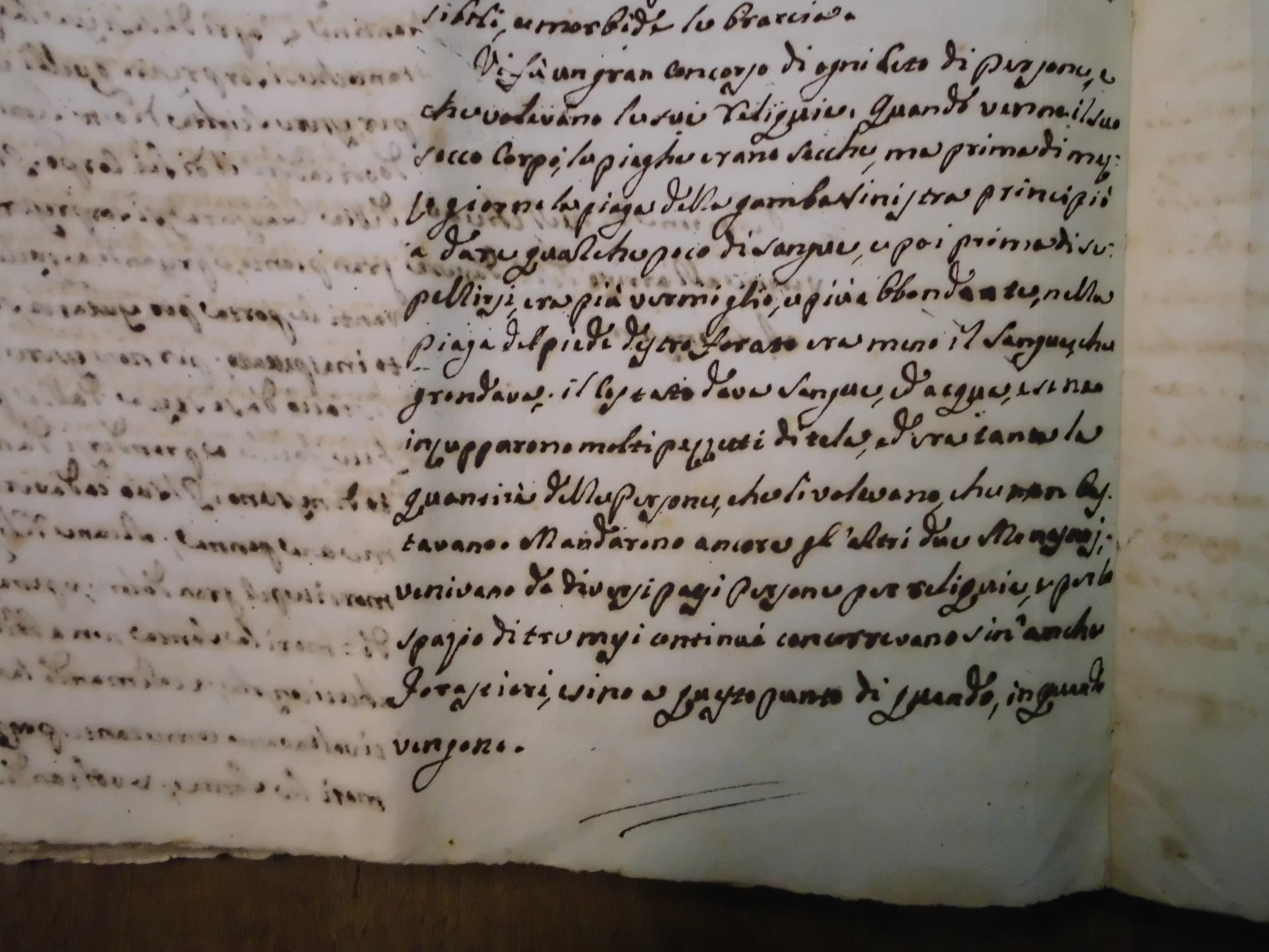 Licensed under Italian copyright law